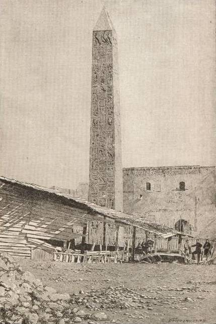 The Obelisk (Cleopatra's Needle) now in Central Park, New York, as it Stood in Alexandria, Egypt. This illustration appeared in A Confederate Soldier in Egypt by William W. Loring, published in 1884.